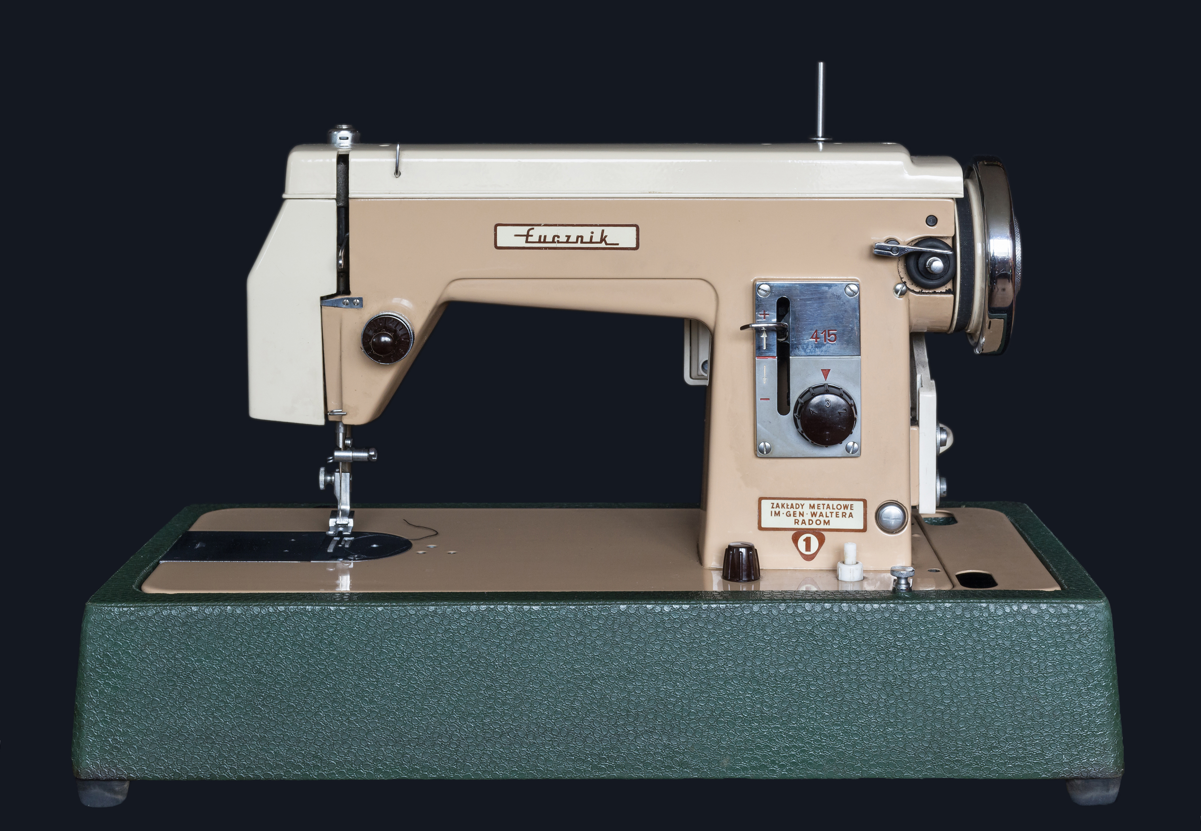 Łucznik sewing machine, 415 type